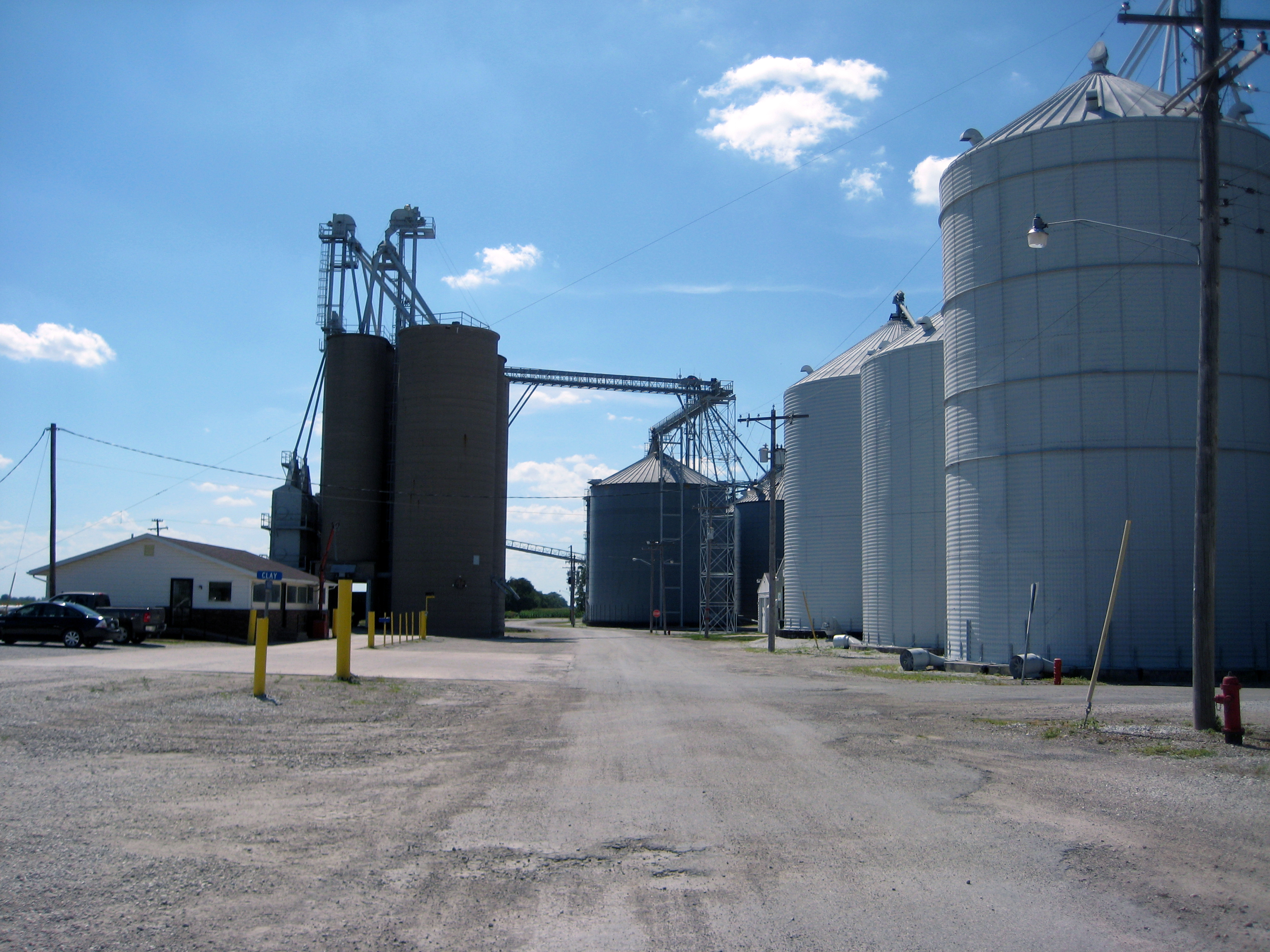 Sciota, Illinois - July 19, 2013 - Douglas Street at Clay Street, Farmers Elevator Company - facing west.